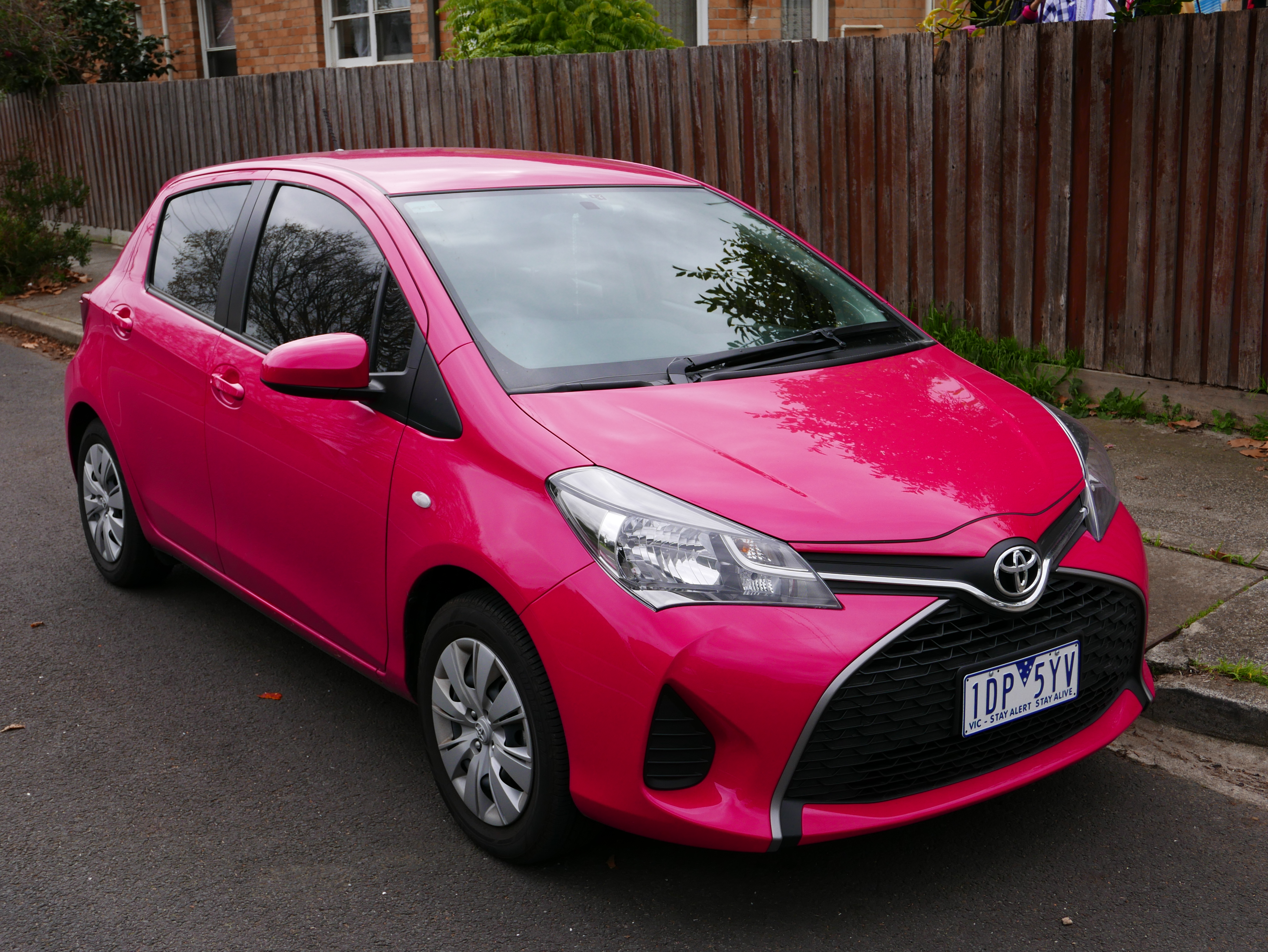 2014 Toyota Yaris (NCP130R) Ascent 5-door hatchback. Photographed in Northcote, Victoria, Australia. Vehicle registration enquiry resultsJurisdictionVictoriaRegistration1DP5YVChassis codeJTDKW3D370D561043Engine code2NZ7349653Compliance date2014-12Year of manufacture2014